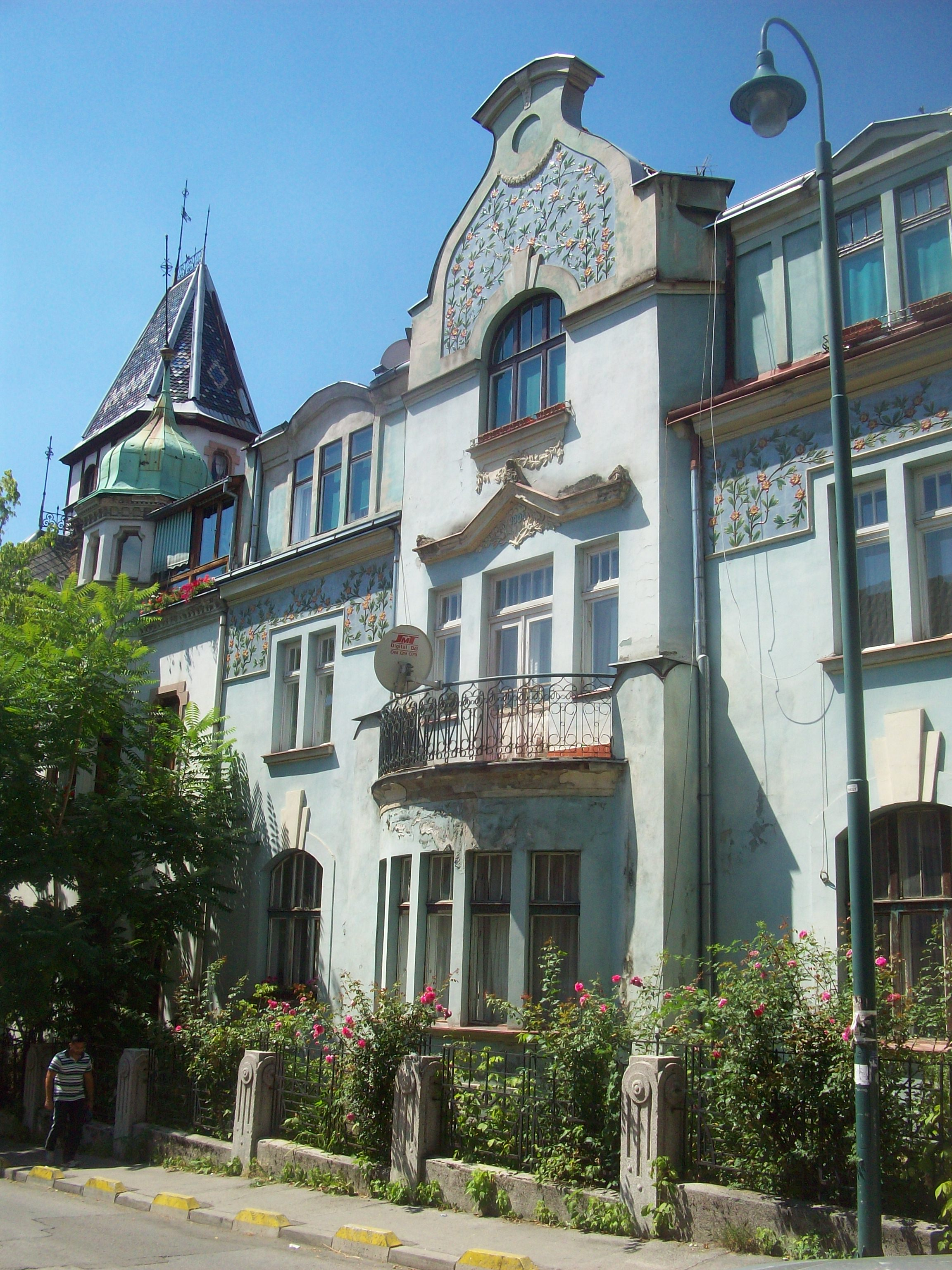 Sarajevo, Villa Rädisch